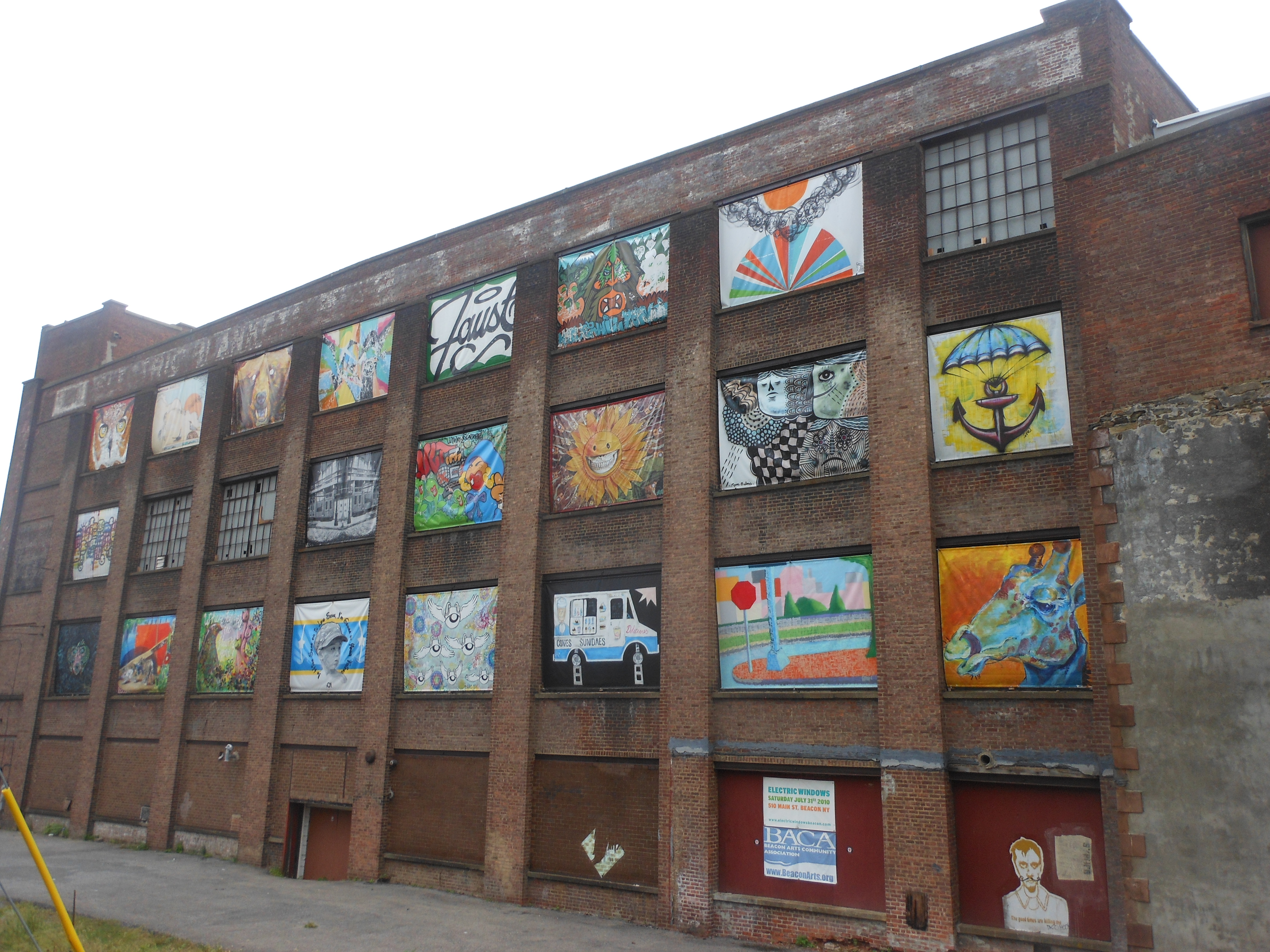 Beacon, New York abandoned historic factory buildings